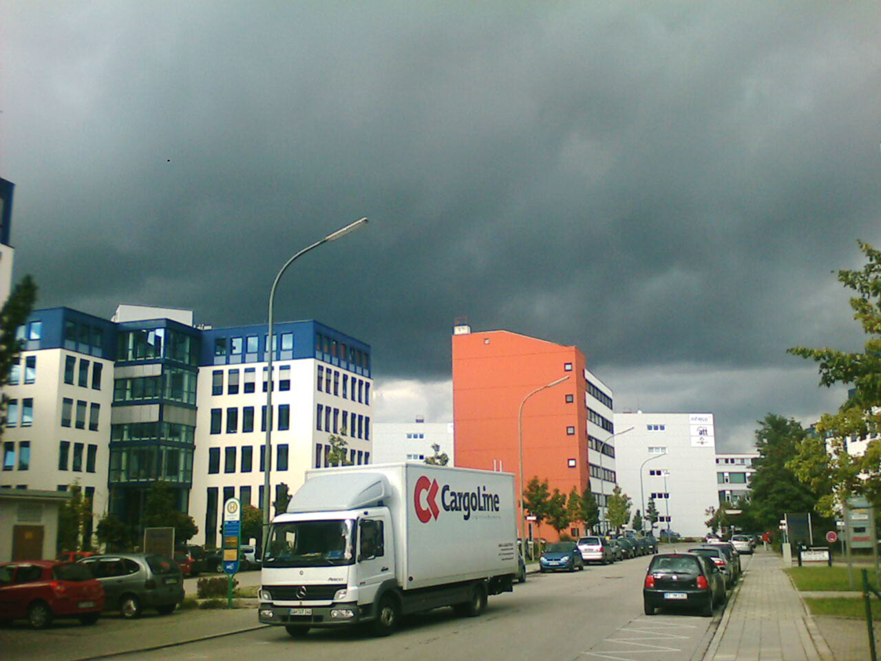 Martinsried, Planegg, Bavaria, Germany